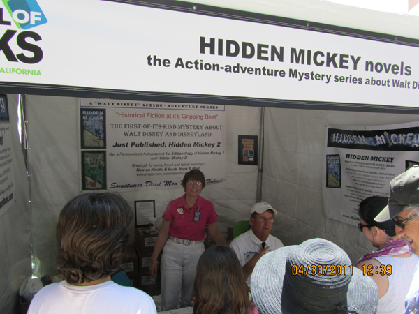 image of the 'Hidden Mickey' booth at the Los Angeles Times Festival of Books, April 30, 2011